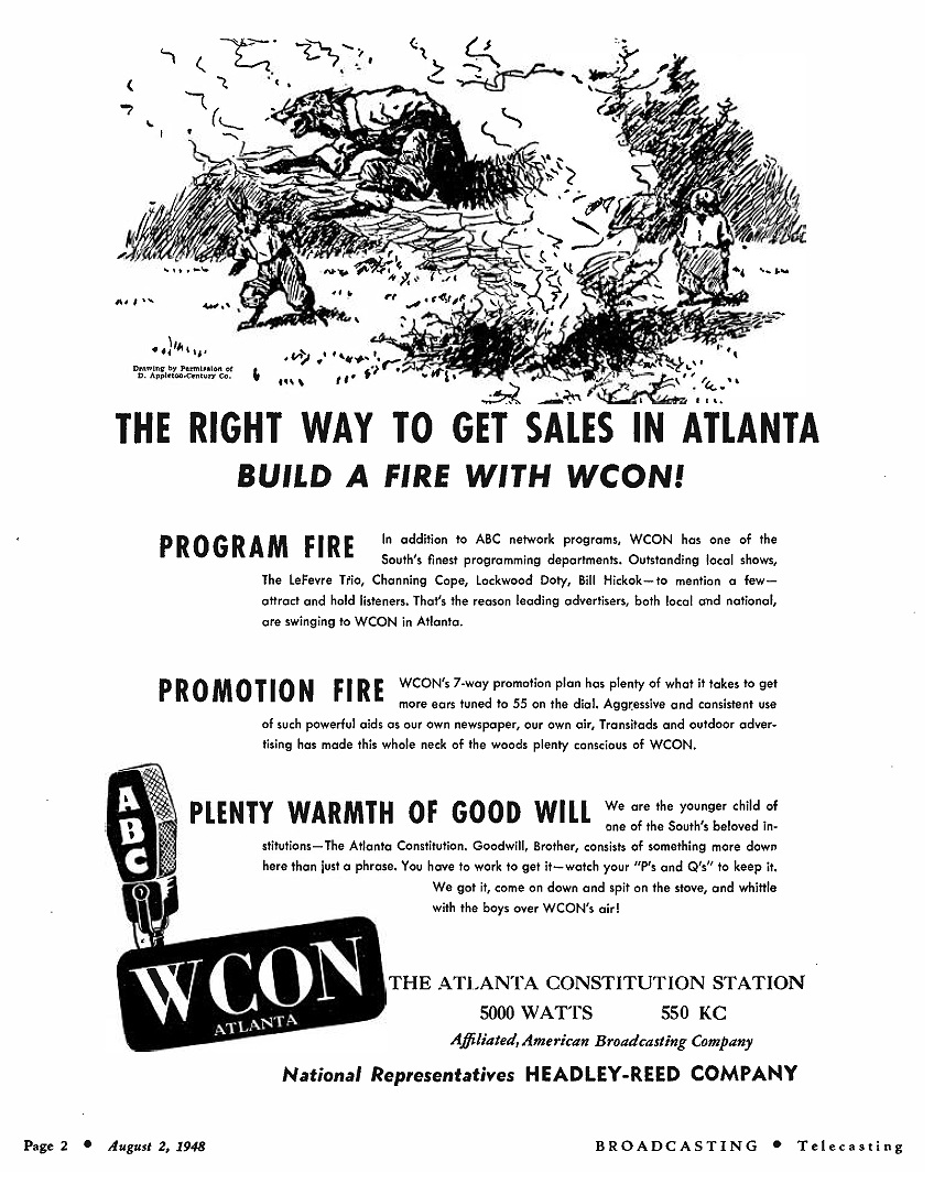 Advertisement for AM radio station WCON, 550 AM in Atlanta, Georgia. The station was founded by the Atlanta Constitution newspaper in 1947, which operated it until 1950 when it was deleted as part of the requirements for the newspaper's merger with the Atlanta Journal.